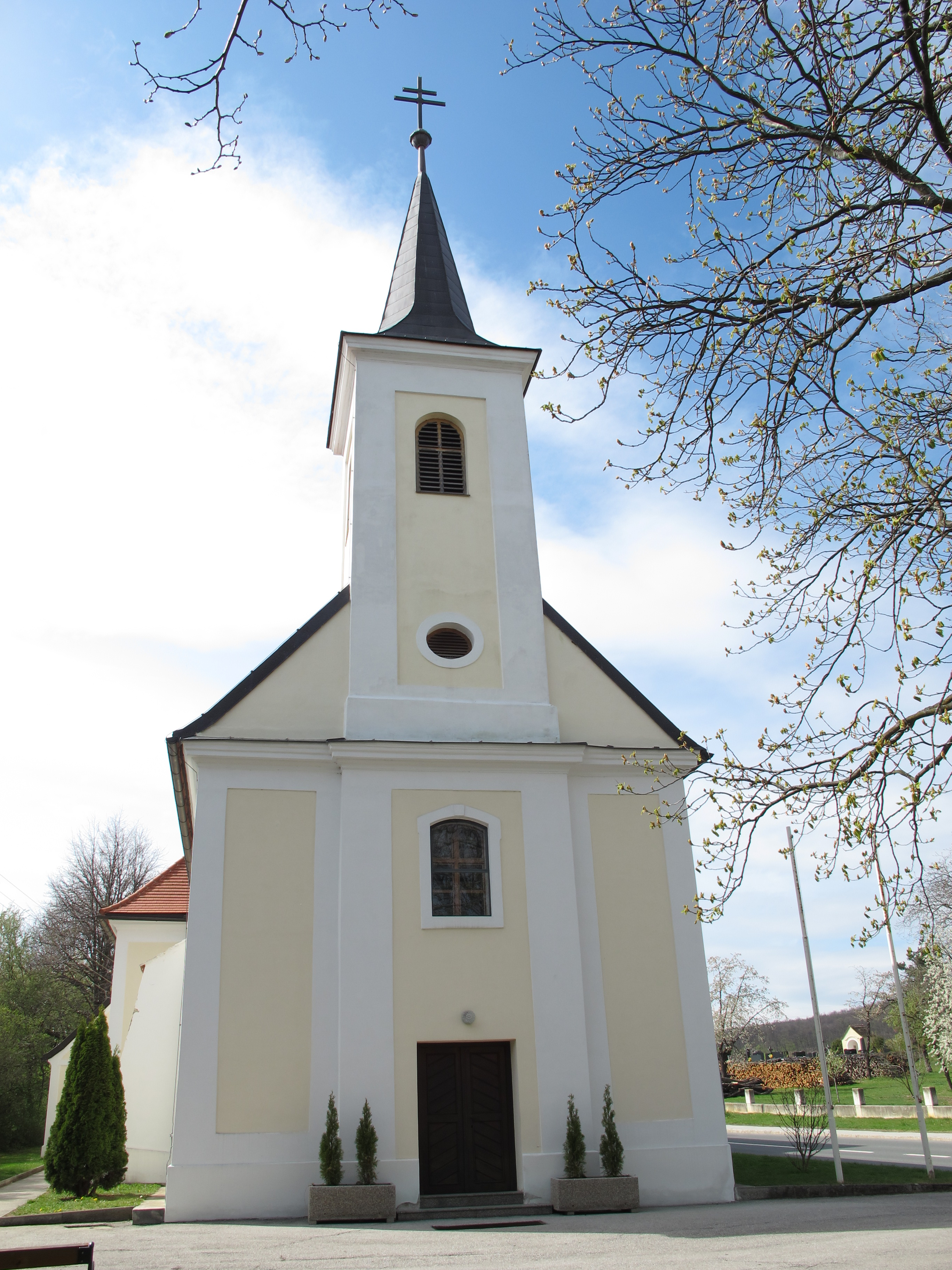 Pfarrkirche Weiden bei Rechnitz